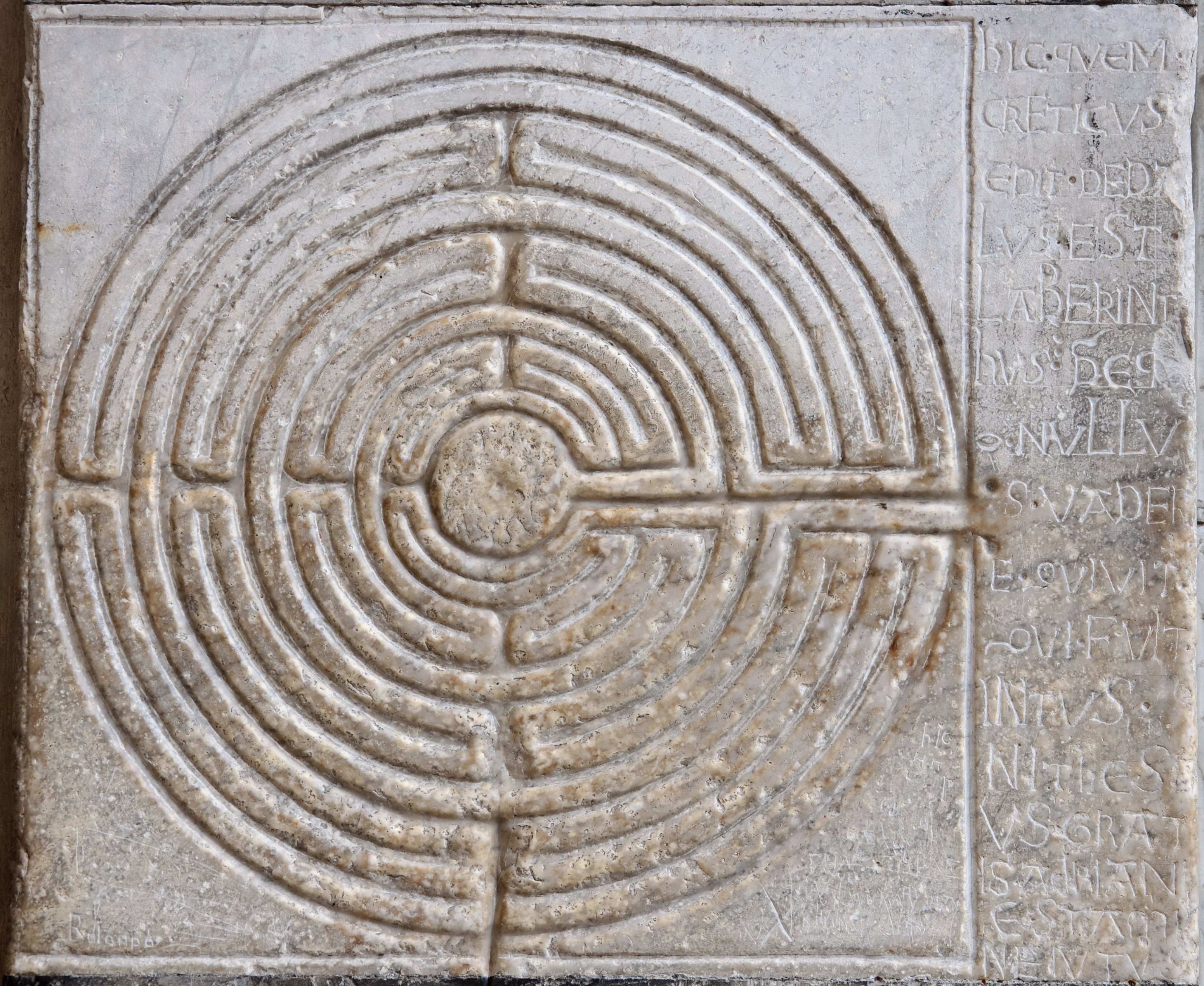 Digital labyrinth carved on a pillar of the portico of Lucca Cathedral, Tuscany, Italie.The Latin inscription says "HIC QUEM CRETICUS EDIT. DAEDALUS EST LABERINTHUS . DE QUO NULLUS VADERE . QUIVIT QUI FUIT INTUS . NI THESEUS GRATIS ADRIANE . STAMINE JUTUS", i.e. "This is the labyrinth built by Dedalus of Crete; all who entered therein were lost, save Theseus, thanks to Ariadne's thread."